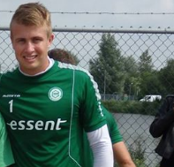 Sergio Padt at FC Groningen